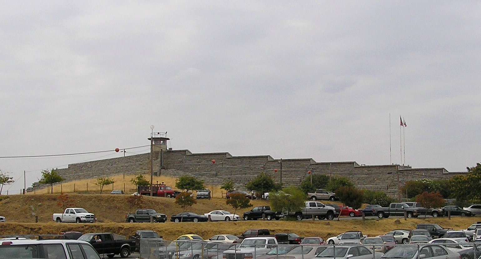 Folsom prison